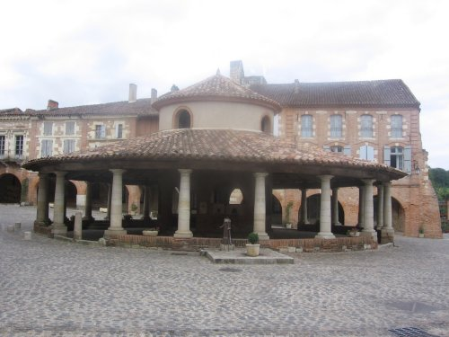 A grain market on the way to Compostela in Auvillar, Tarn-et-Garonne (France) Halle ronde du village d'Auvillar, Tarn-et-Garonne (France)